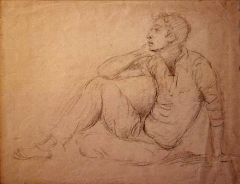 Portrait of Józef Rajnfeld